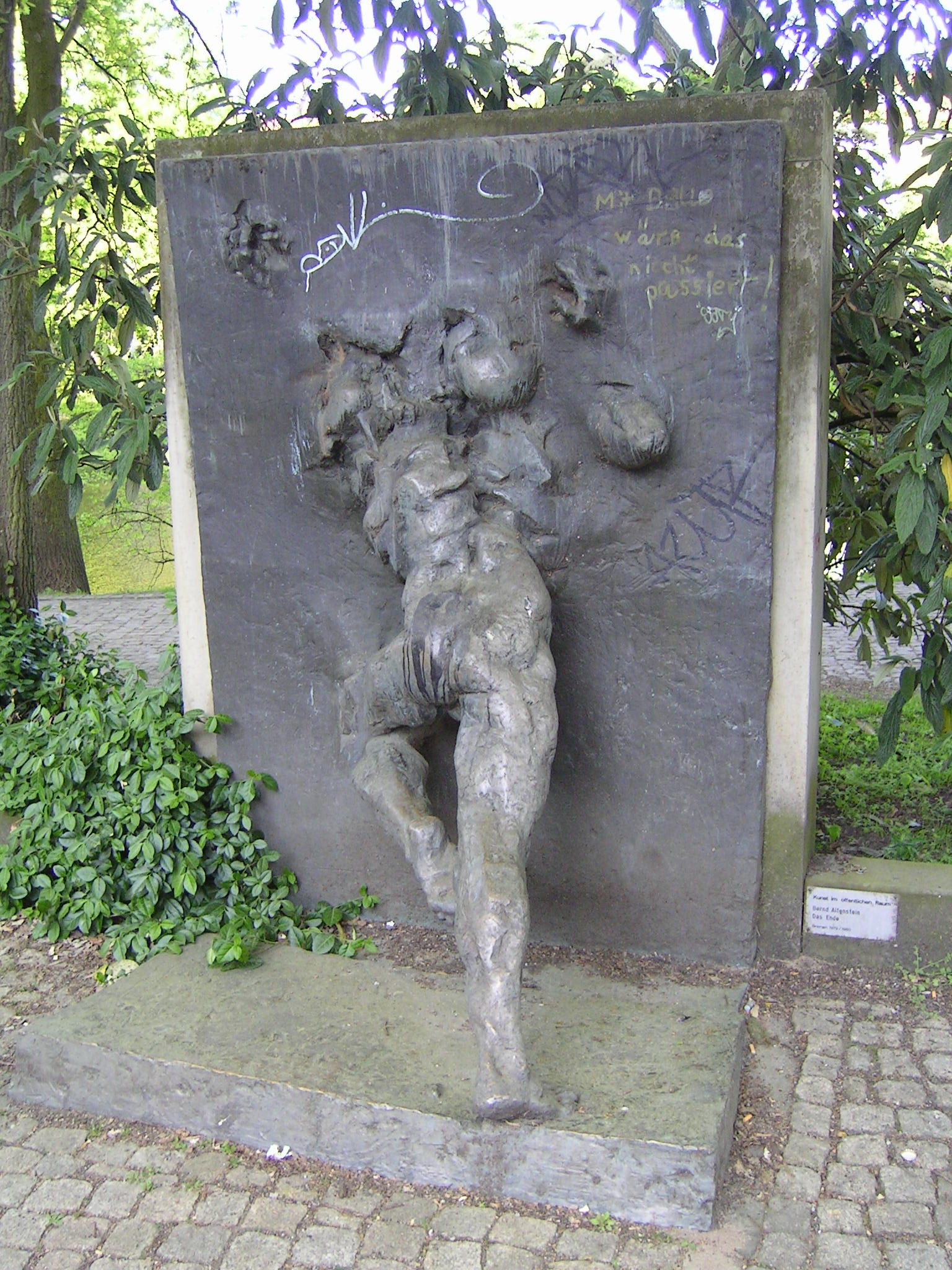 info plate 53°04′37.74″N 8°48′43.25″E / 53.07715°N 8.8120139°E